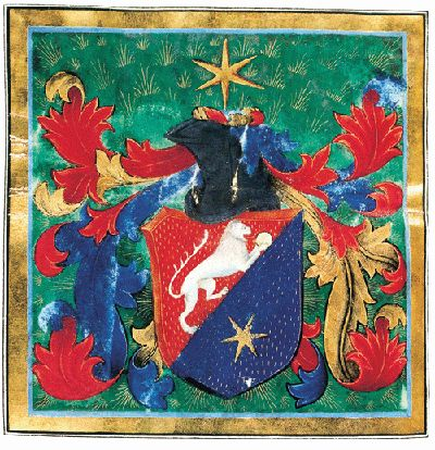 Orbán Nagylucsei's crest